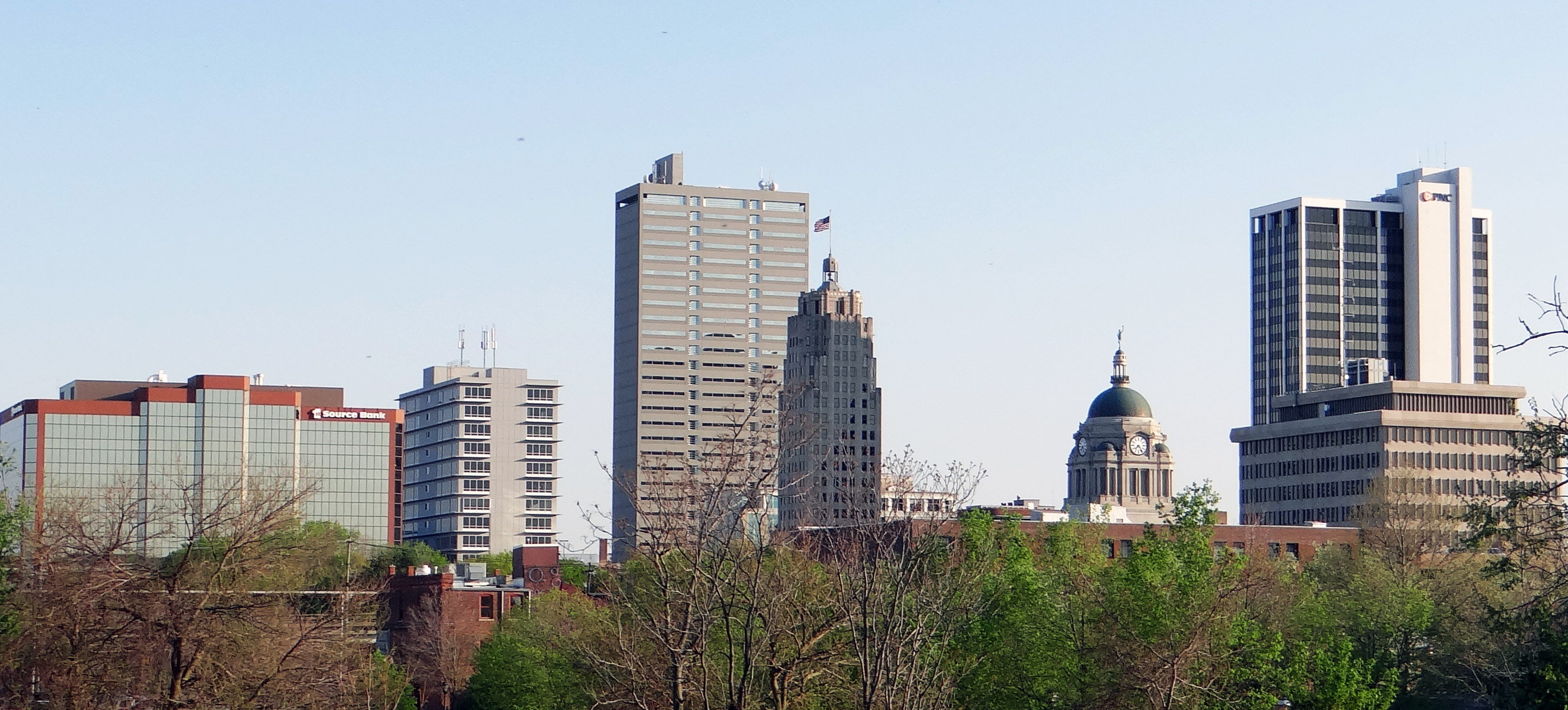 View looking south over the St. Marys River footbridge between the Old Fort and Headwaters Park.